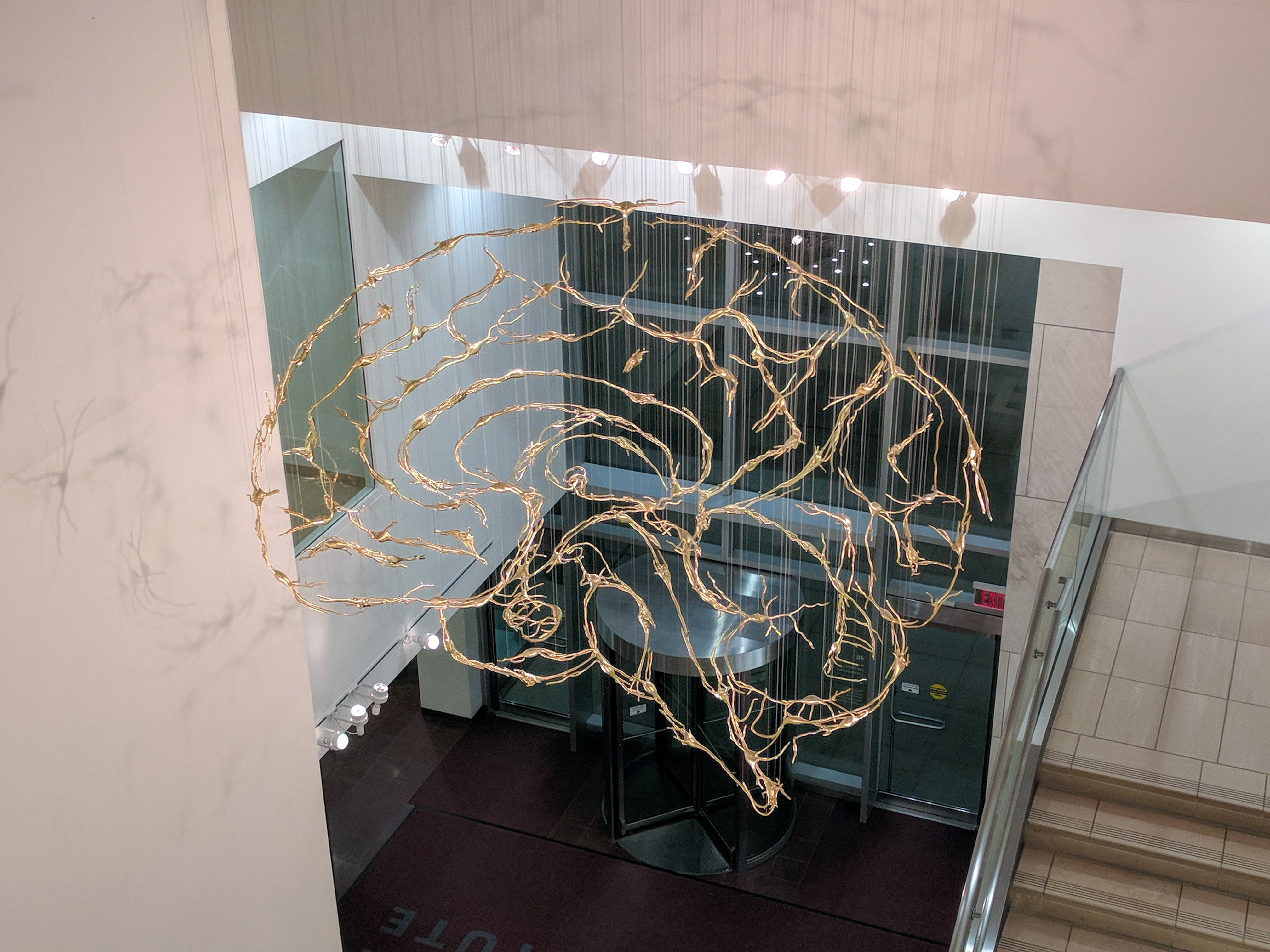 Schwerpunkt by Ralph Helmick, public art at the McGovern Institute for Brain Research, Massachusetts Institute of Technology